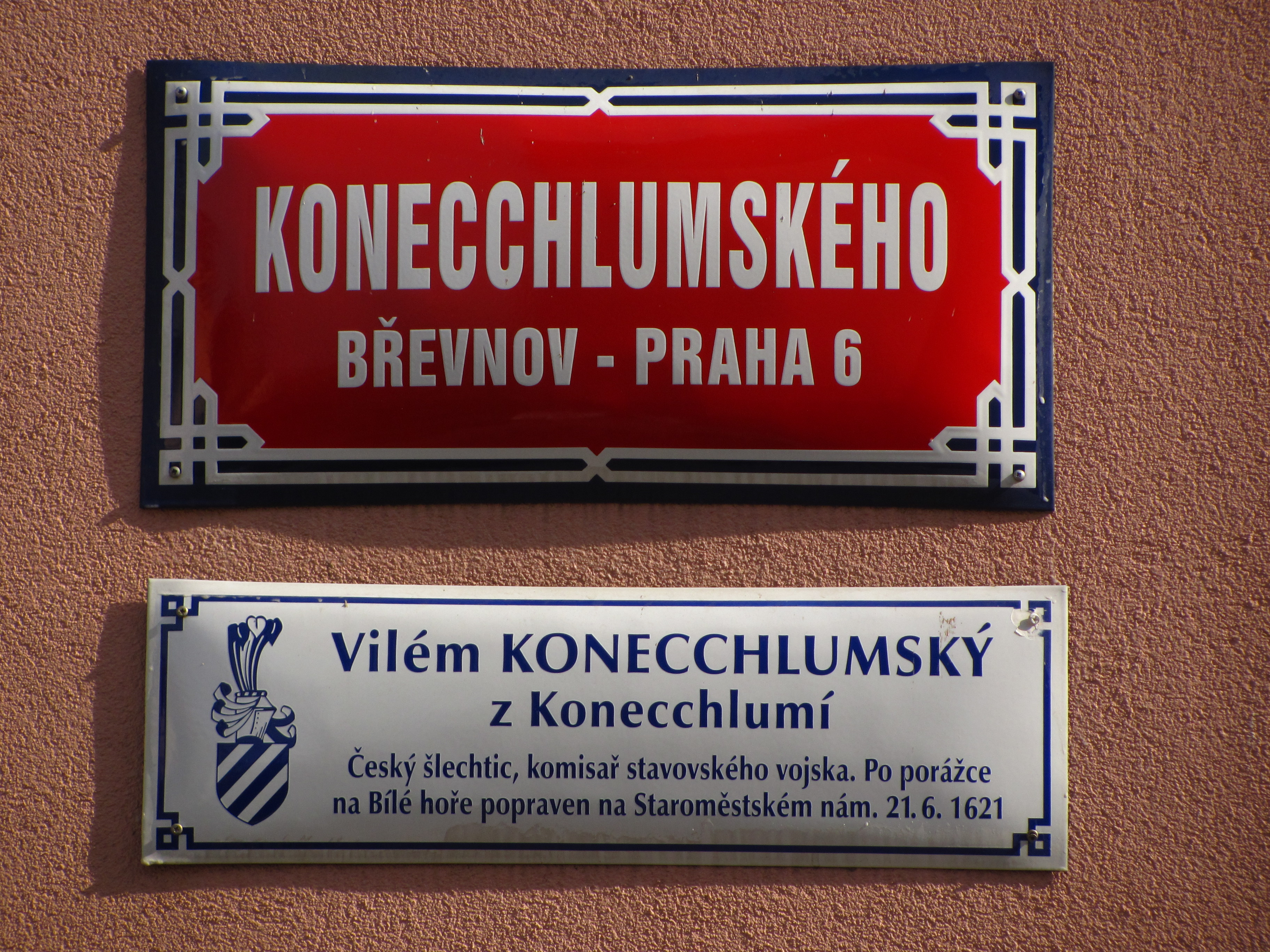 Street sign, Konecchlumského street, Praha 6 - Břevnov